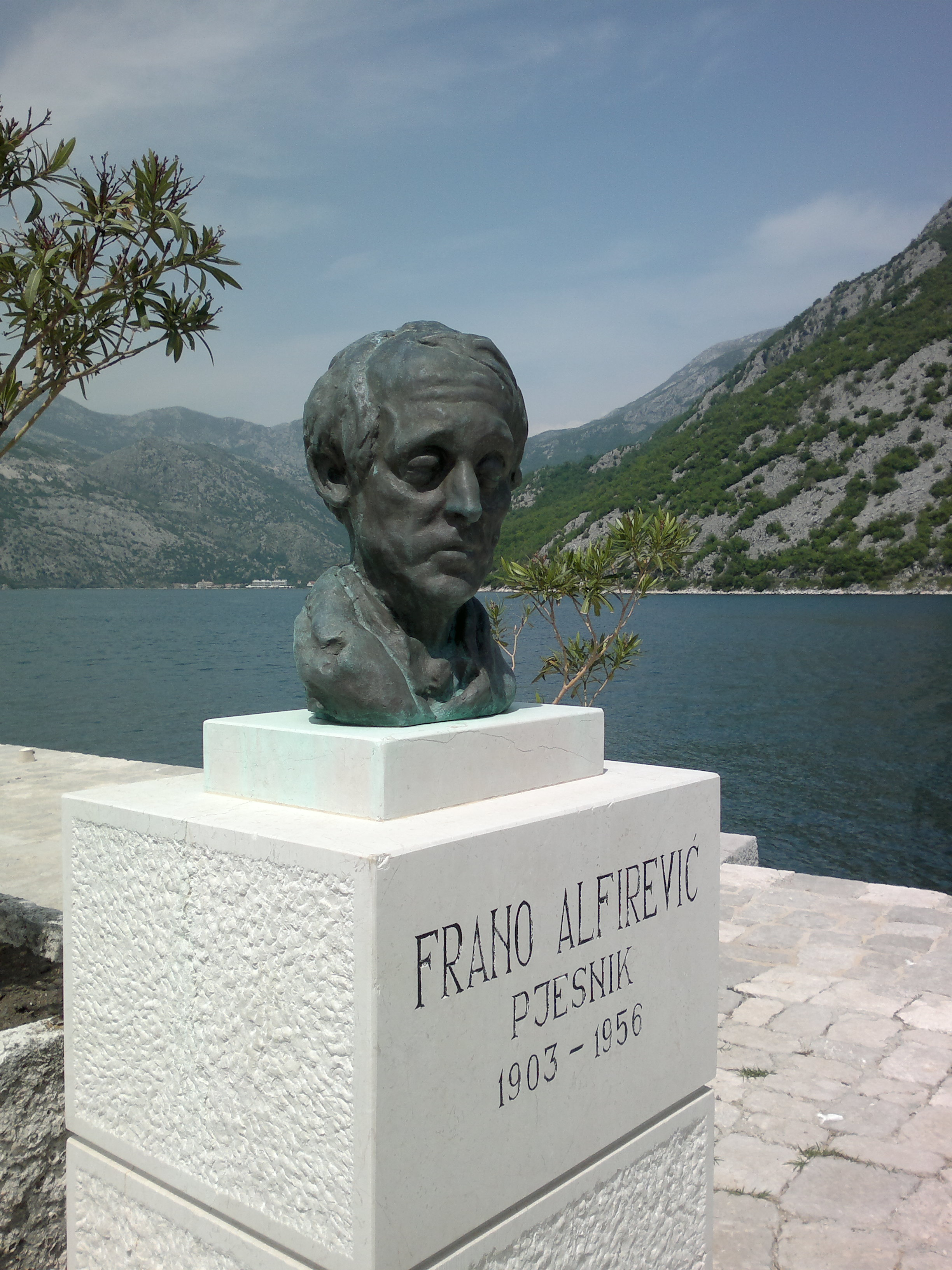 the bust of Frano Alfirevic on Our Lady of the Rocks, Perast, Montenegro